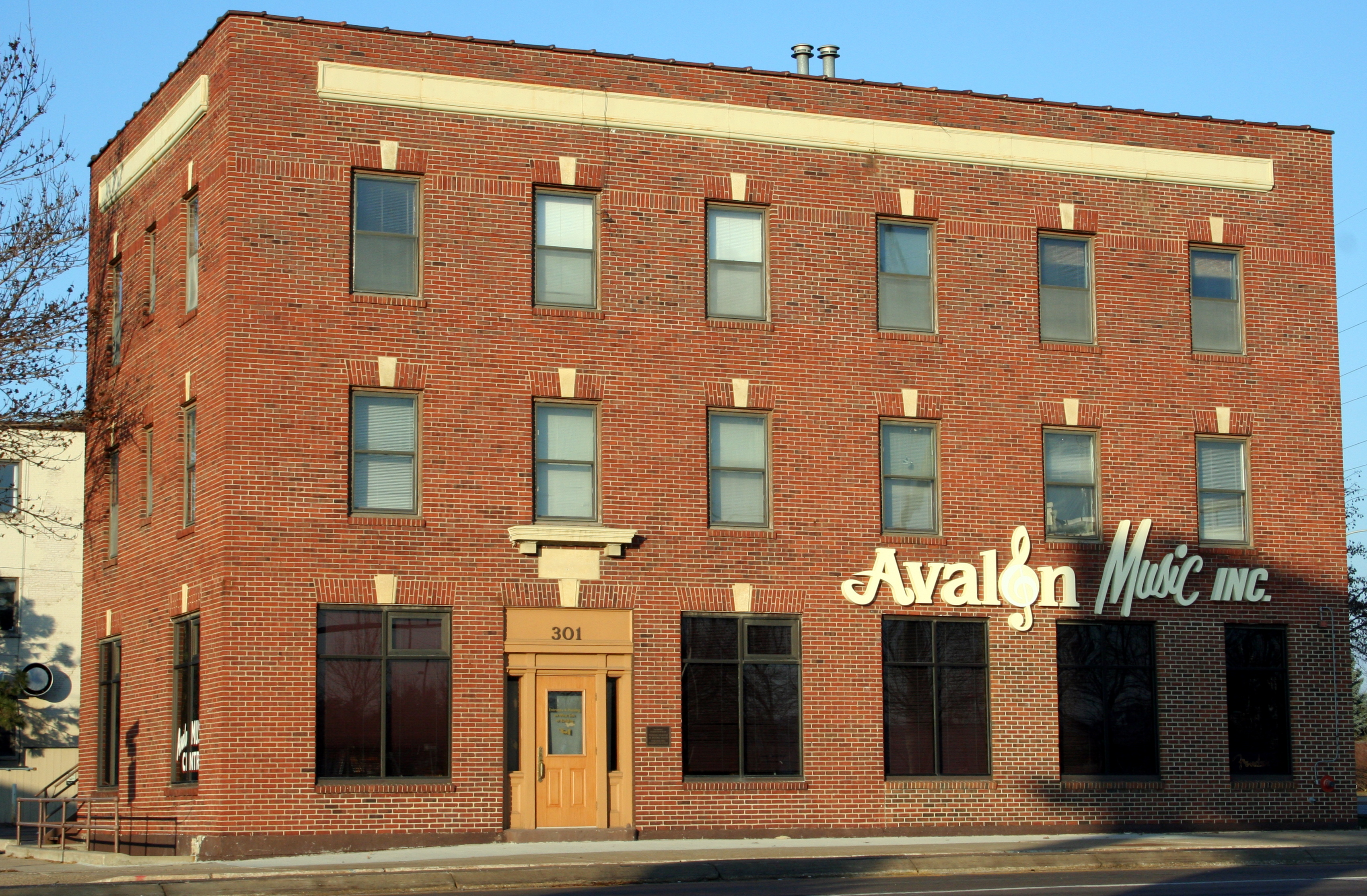 Avalon Music, formerly the Avalon Hotel, at 301 North Broadway in Rochester, Minnesota.